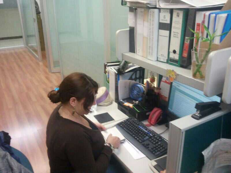 Implicación de responsabilidades que conllevan al estres del estudiante